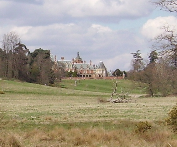 Minley Manor An MOD listed country manor house currently used as a Royal Engineer officers' mess.